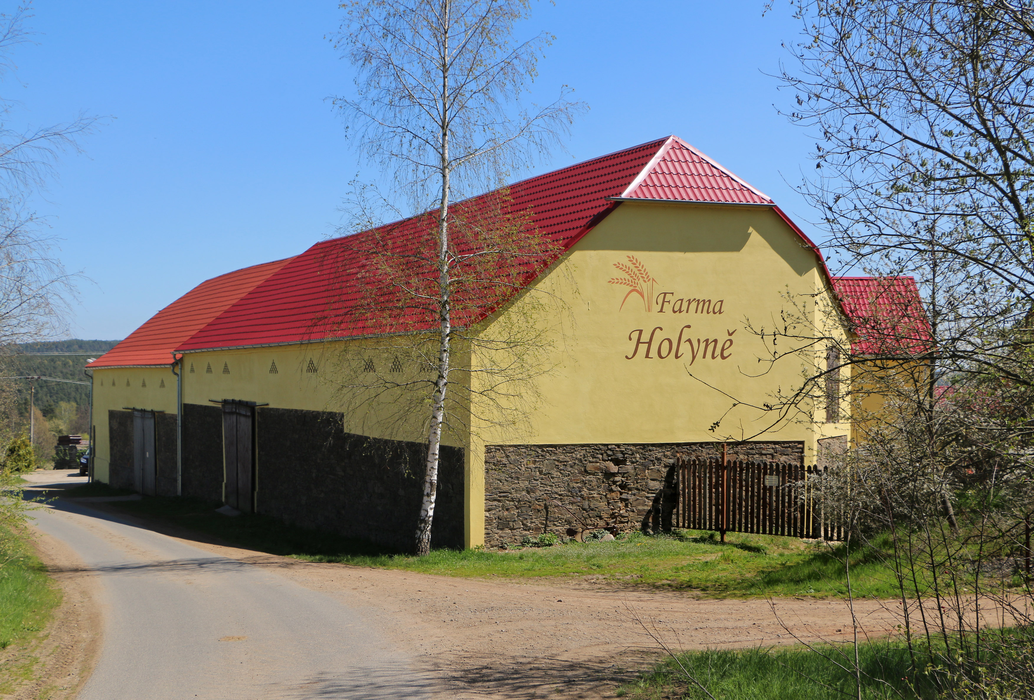 Yard in Holyně, part of Svojšín, Czech Republic.